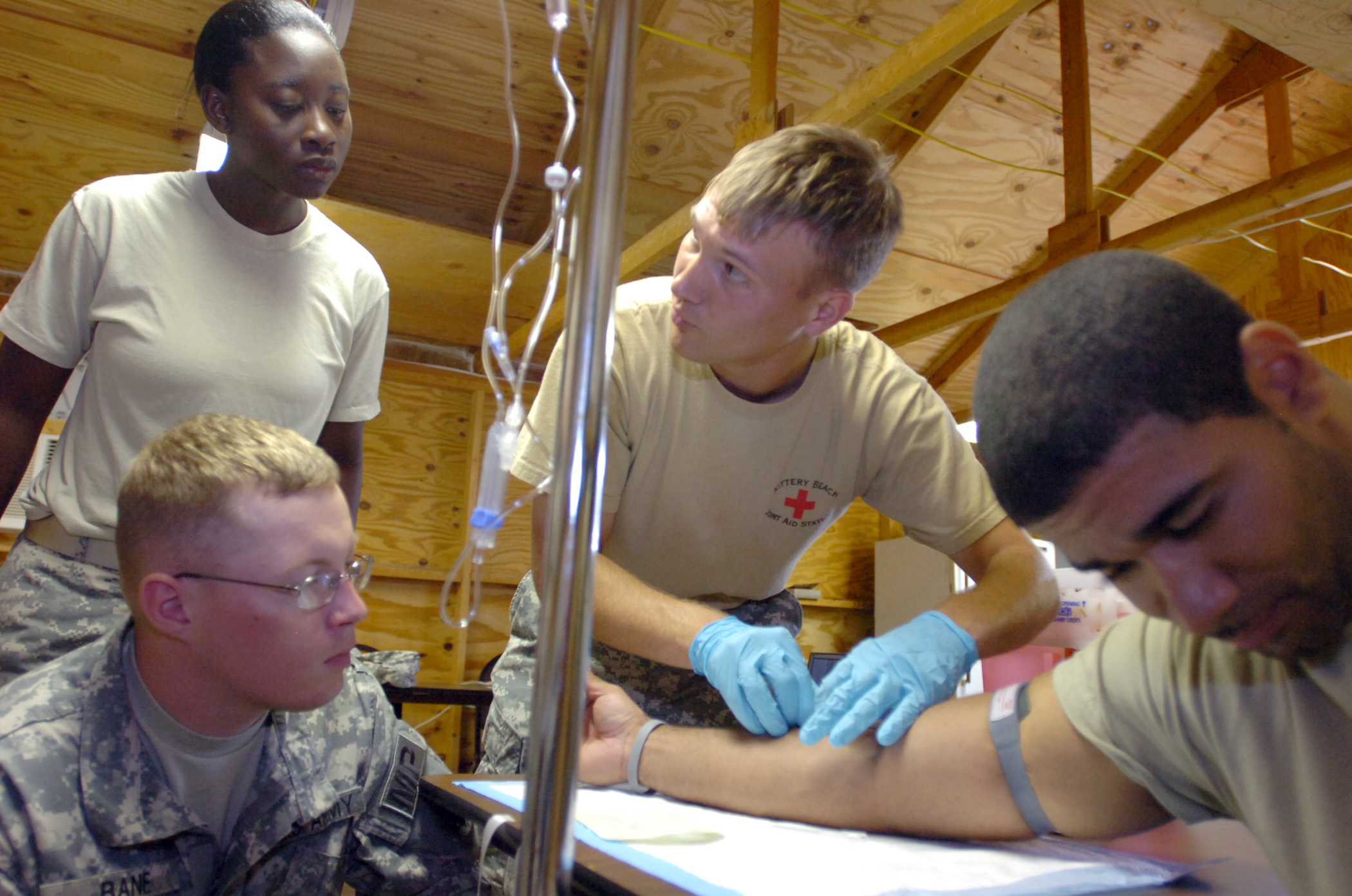 Army Staff Sgt. Christopher Ellis, non-commissioned officer in charge of medical evacuations for Joint Aid Station, inserts a needle with a catheter into a student as he gives a detailed run through of administering an IV drip during a Combat Lifesaver Course at Joint Task Force Guantanamo's Camp America, June 5. 2008. Ellis led the class which teaches non-medical Soldiers more advanced lifesaving training to provide emergency care as a secondary mission. JTF Guantanamo conducts safe and humane care and custody of detained enemy combatants. The JTF conducts interrogation operations to collect strategic intelligence in support of the global war on terror and supports law enforcement and war crimes investigations. JTF Guantanamo is committed to the safety and security of American service members and civilians working inside its detention facilities.